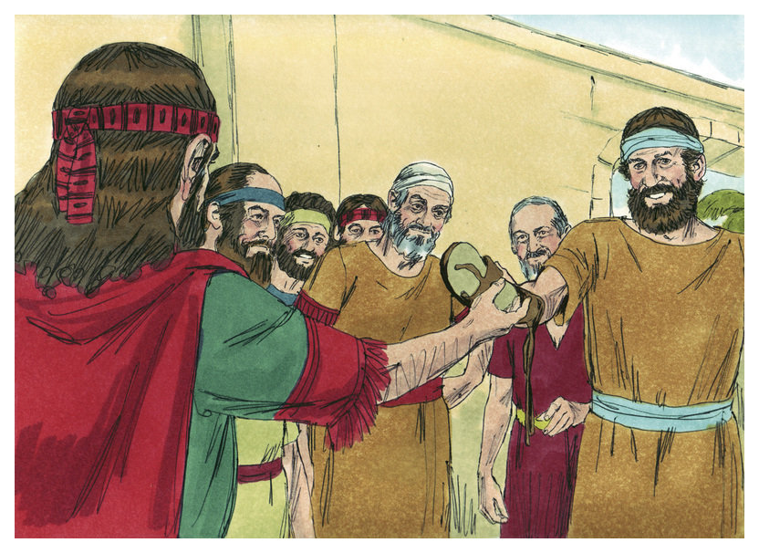 Biblical illustration of Book of Ruth Chapter 4